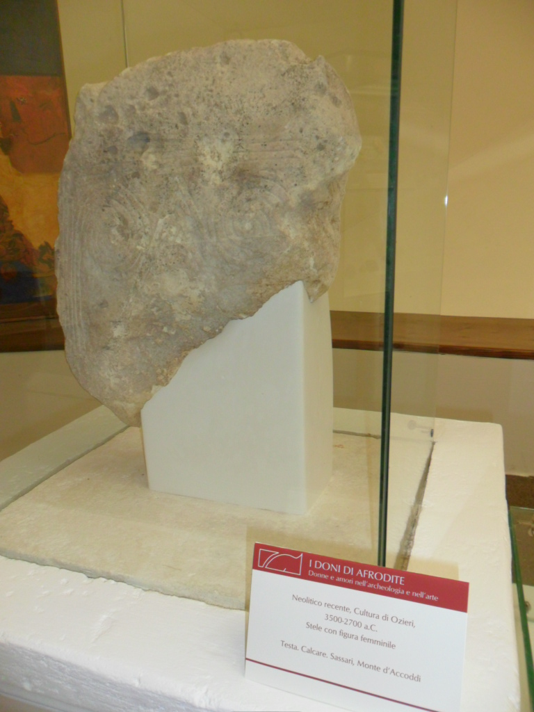 Monte Accoddi sculpture